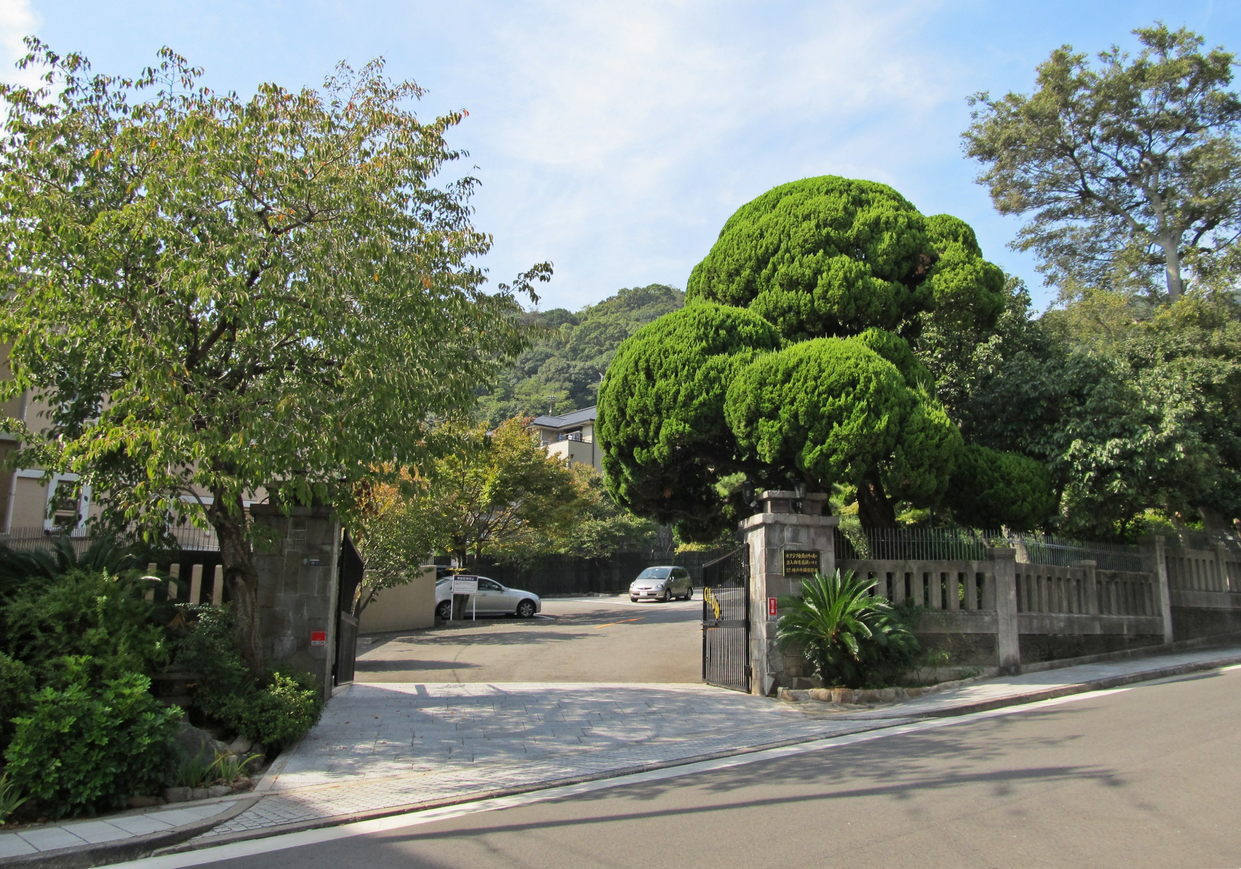 Kobe Club(Chūō-ku,Kobe,Hyogo,Japan)